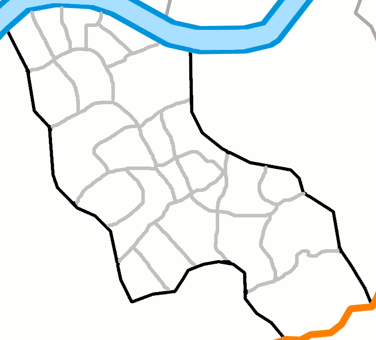 Map Gangnam Gu districts in Seoul. Original text: I made this with paint, if you can do better, please do.